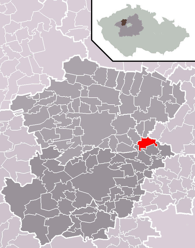 Location of Slatina municipality within Kladno District and administrative area of Kladno as a Municipality with Extended Competence.